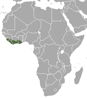 West African Pygmy Shrew (Crocidura obscurior) range